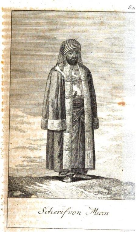 Sharif of Mecca in German translation of d'Ohsson's Tableau général de l'empire othoman, published 1793, vol. II, p. 163.